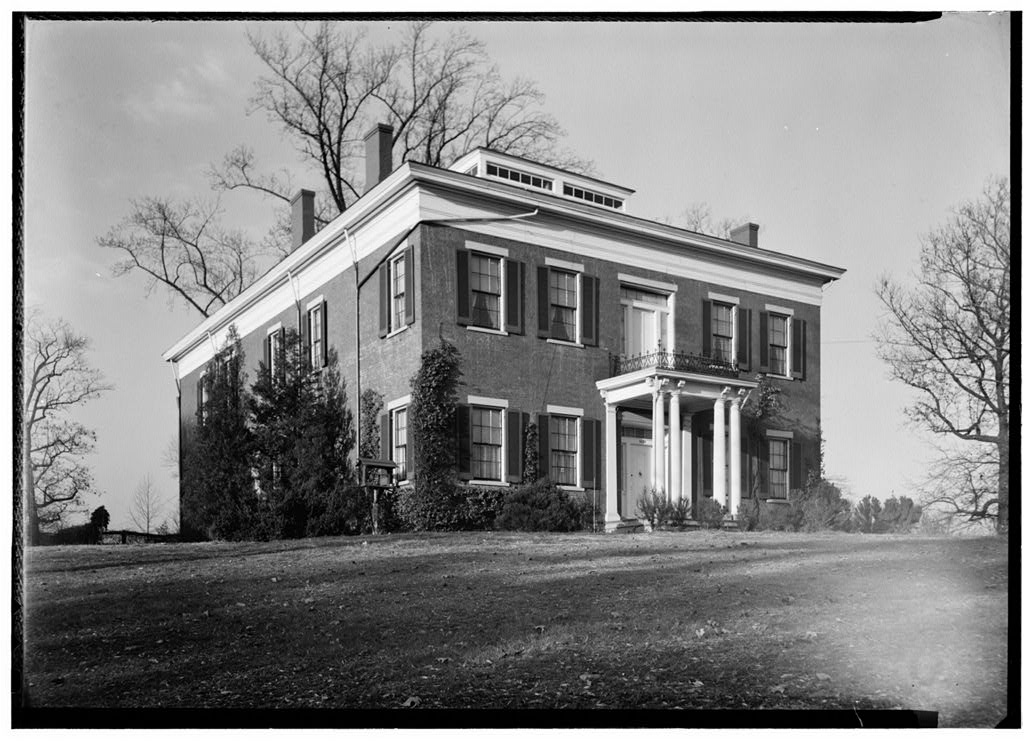 Stephenson House, aka Oakland, Parkersburg, West Virginia. Listed on the National Register of Historic Places. HABS image.